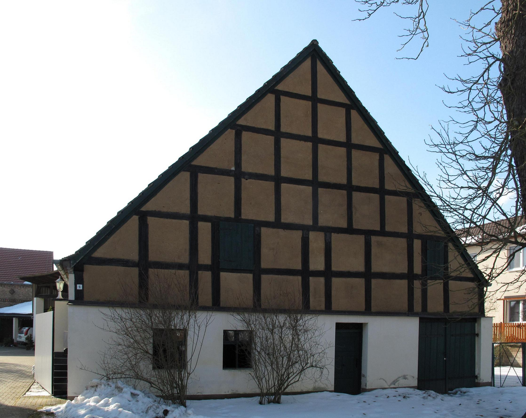 Listed „Mittelflurhaus“ (a variety of the Low German house) in Kerzendorf. Kerzendorf is a part of Ludwigsfelde in the district Teltow-Fläming, state Brandenburg, Germany.